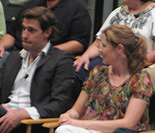 The Office set visit - Los Angeles, Calif. - Aug. 7, 2009